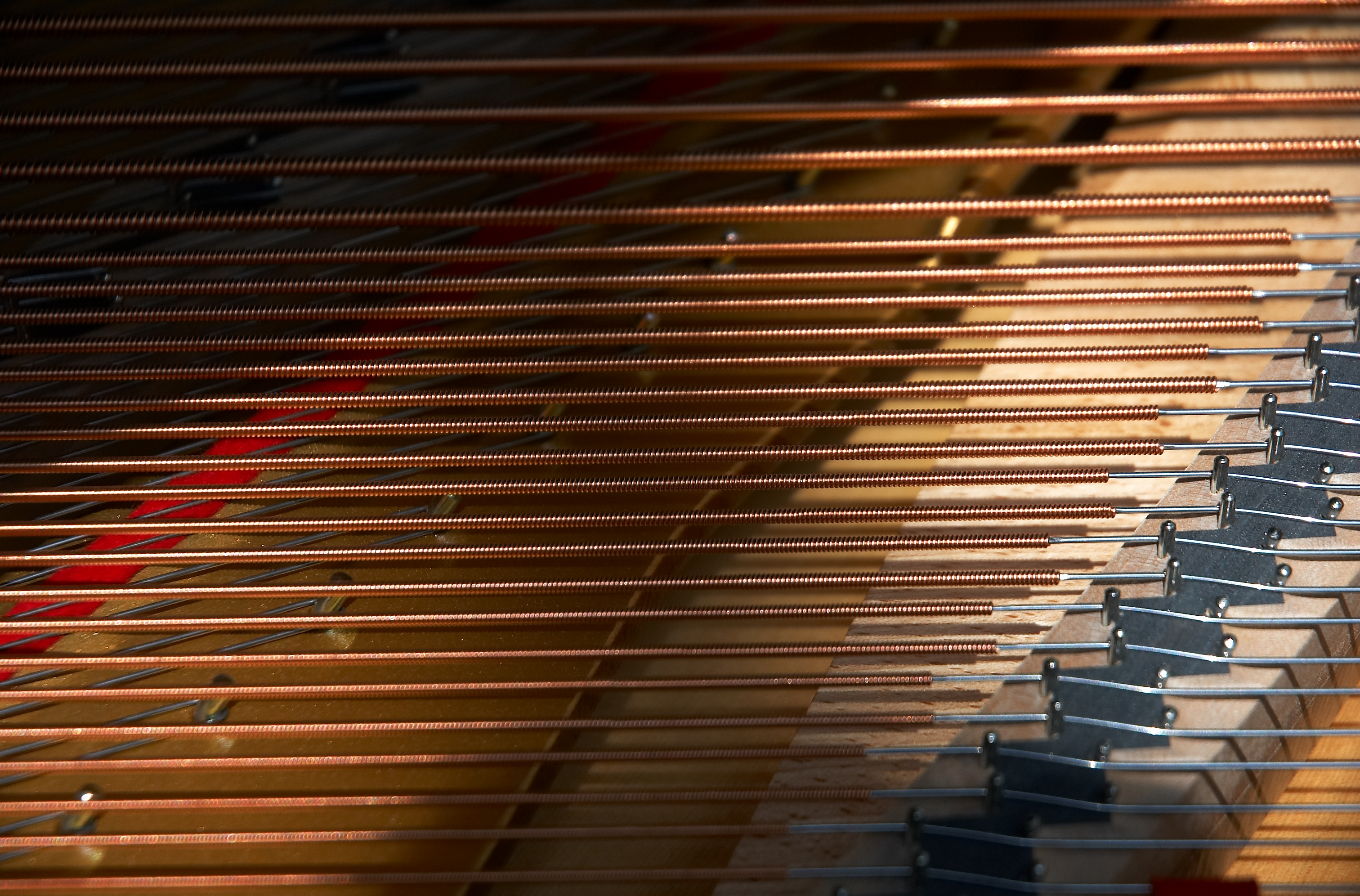 Piano strings